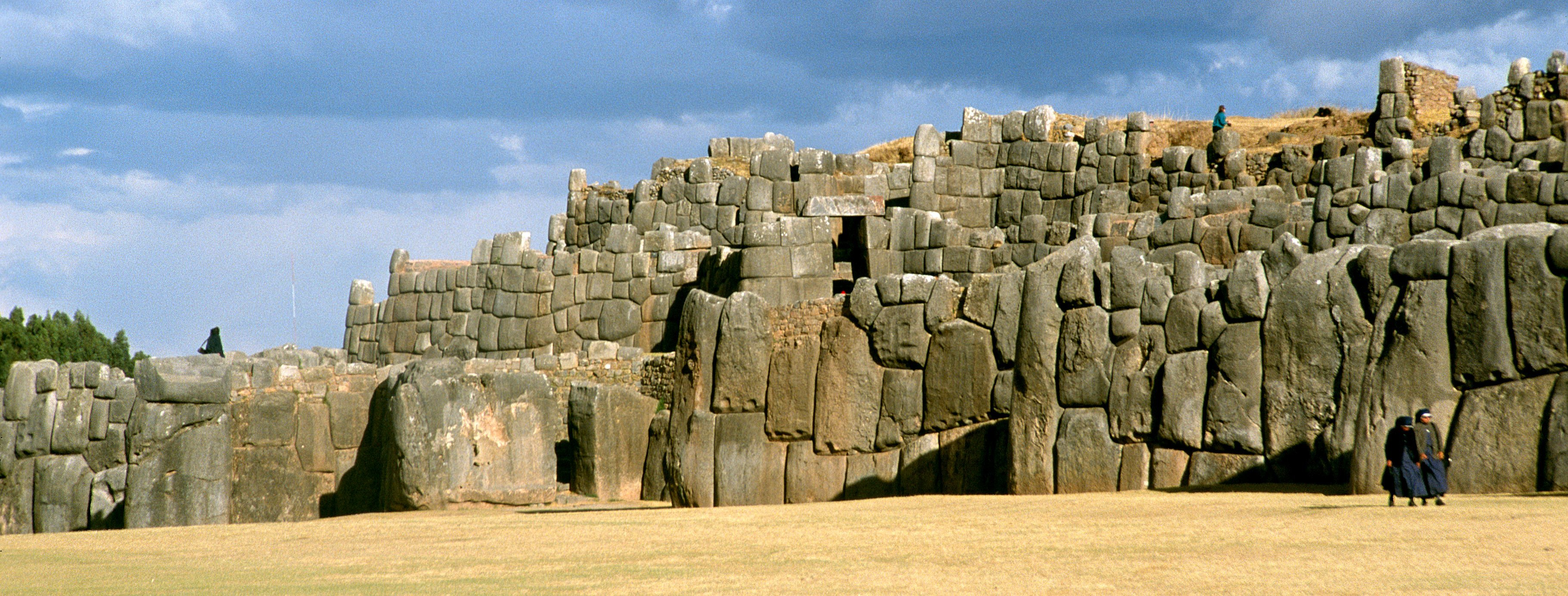 Sacsayhuamán ruins. Walls. Cusco, Perú. Digital photo taken by author and post-processed with The GIMP.